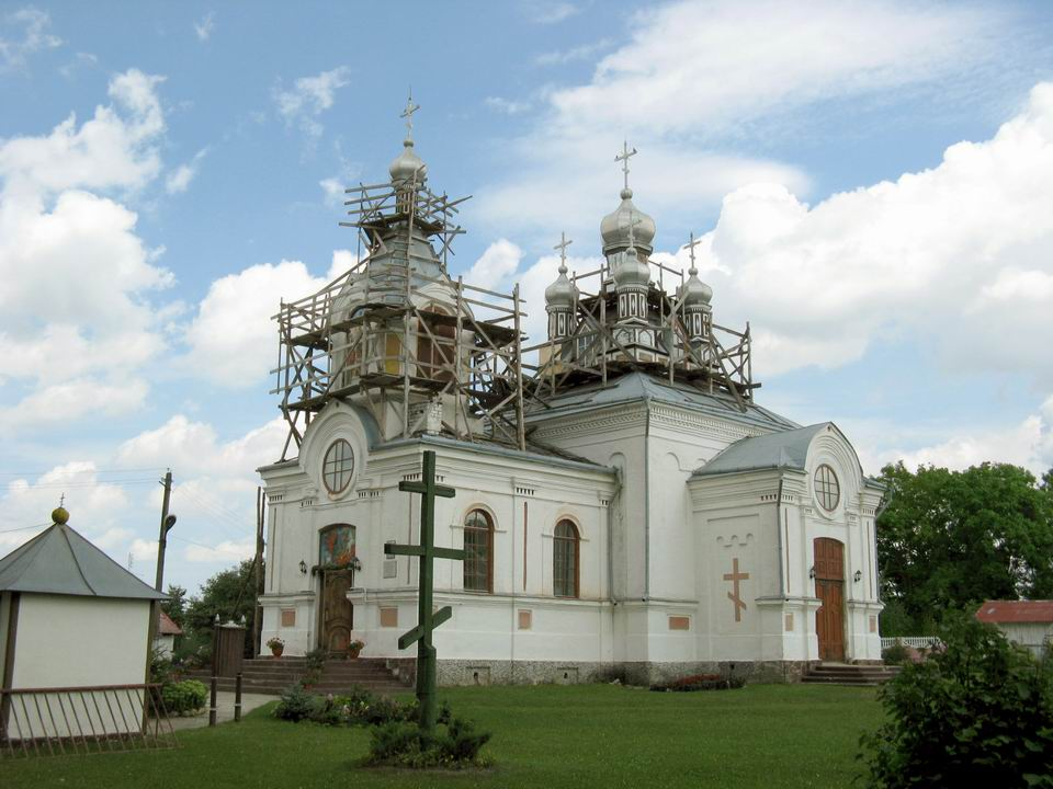 And then we went to the city center, which is located at the intersection of Lenin Street and Soviet. His walk, we started with the Holy Cross Church (1869)